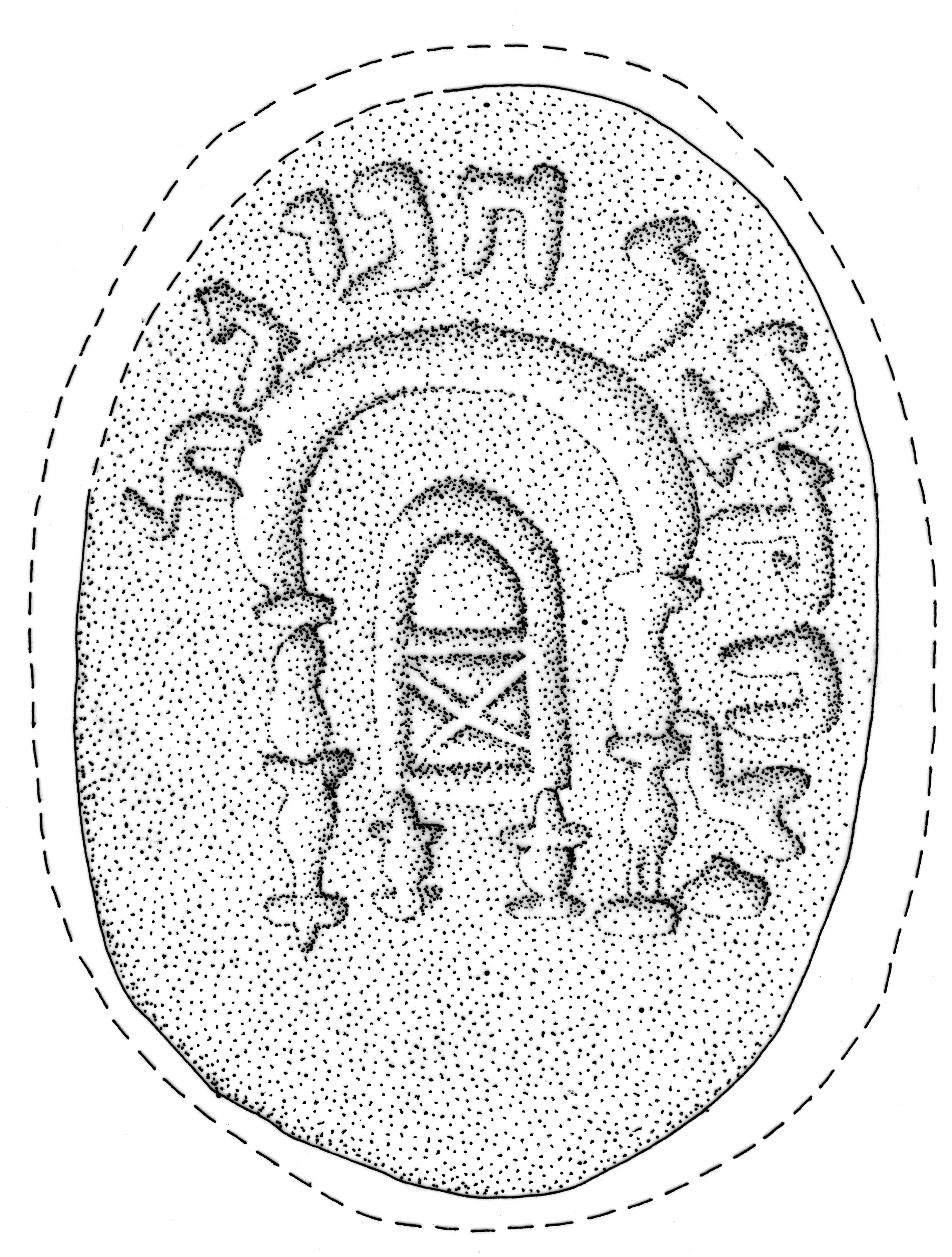 Ring-stone bearing the Aramaic name mirror-imaged Yishak bar Hanina with picture of Torah ark, excavated from Zafar/al-Asabi/Yemen.